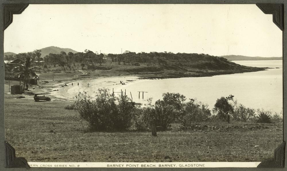 Barney Point Beach, Gladstone, 1937-1938.